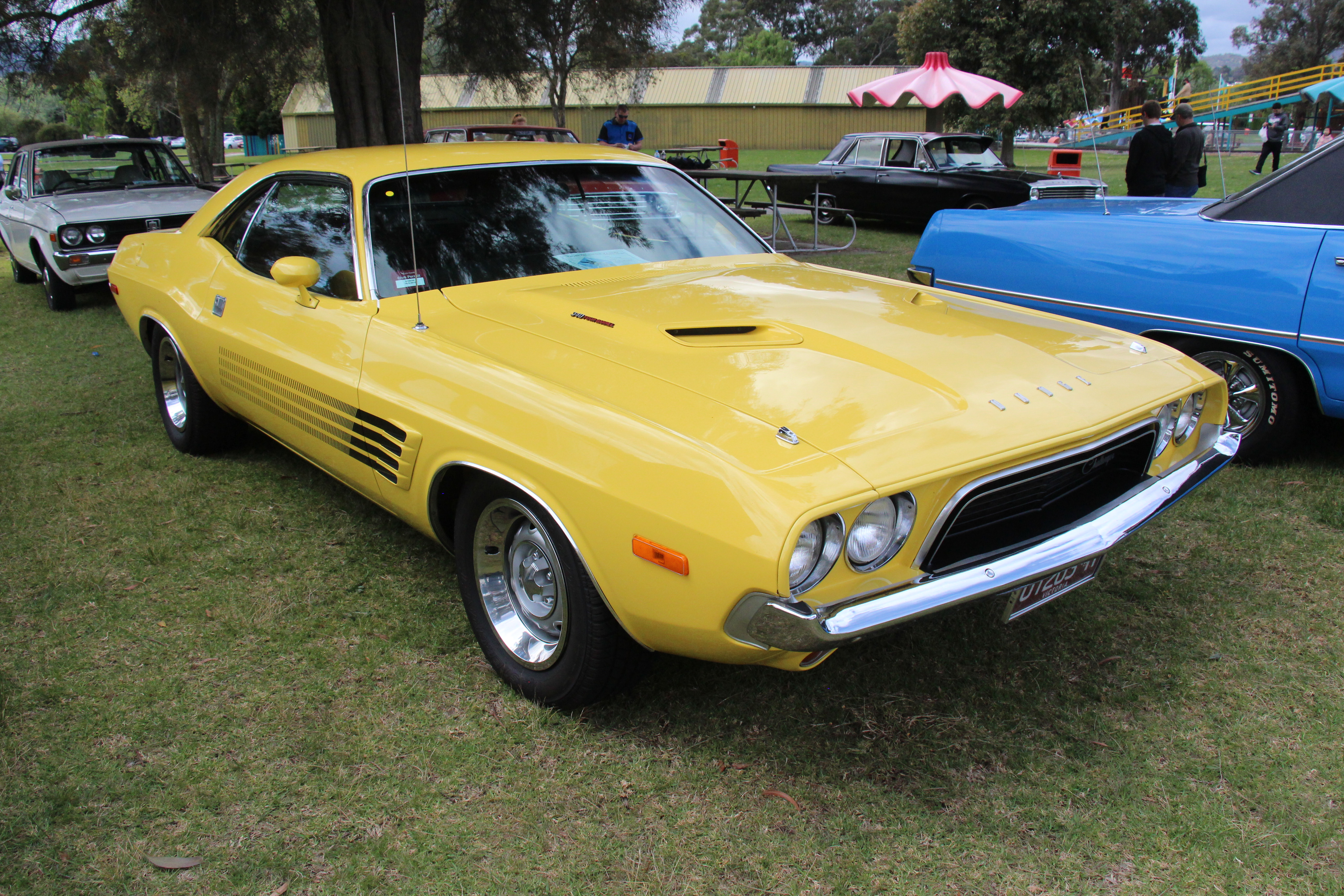 Top Banana. Dodge offered four different wheelbases in 1972. The full size C body Dodge was the Polara and Monaco. The mid size B body was the 4 door Coronet and 2 door Charger. The Dart was the A body compact Dodge, 4 door base and Custom, 2 door Special, Swinger and the performance Demon. The Challenger, introduced in 1970, along with the slightly smaller Plymouth Barracuda were built on Chryslers E body pony car platform. 1972 saw a new 'Sad Mouth' grille that extended below the bumper. The convertible was no longer available in 1972, the 440 Magnum and 426 Hemi dropped too. Only available as a 2 door Hardtop and in base or the new Rallye, which replaced the R/T. The Rallye got dummy air extractors vents bolted to the front fenders, it still got the power bulge hood, but no shaker option. Very similar in 73 and 74, in 1973, the front bumper protruded more, with impact reducing rubber behind, also 73 and 74 have small vertical slots in them for the newer bumper jack, 1974 saw rubber bumper guards on the front bumper. Engines; 110hp 225 6 cyl, 150hp 318 and 240hp 340 V8s